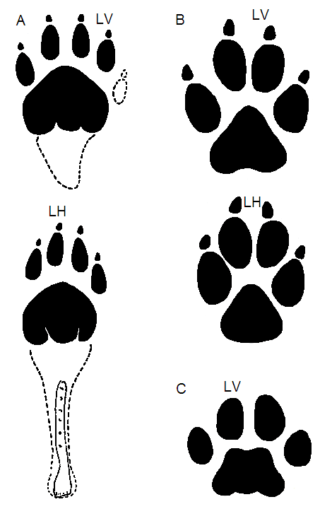 Footprints of thylacine (A), domestic dog (B) and big domestic cat (C); LV = left front paw, LH = left hind paw